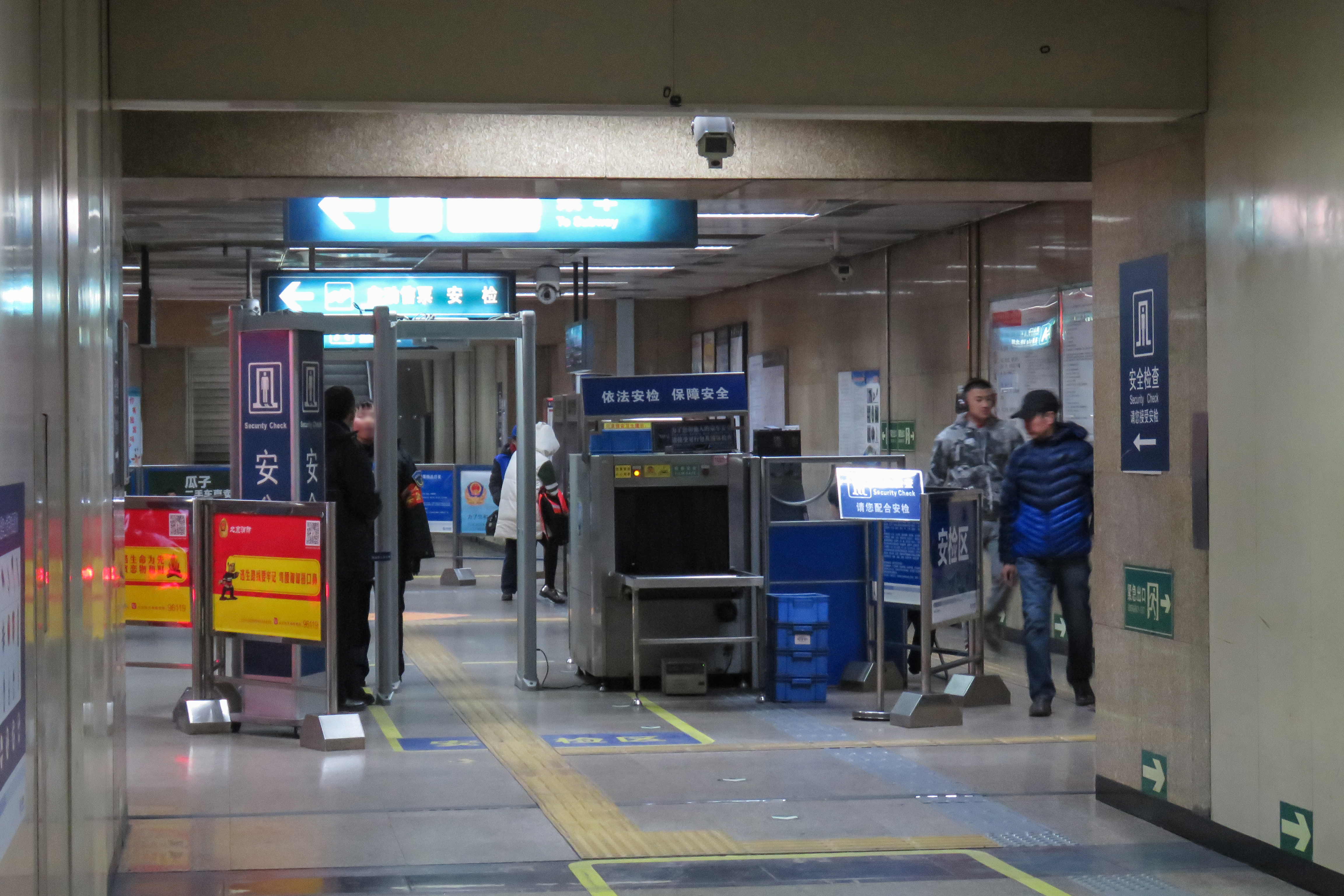 Stranger than you dreamt it, its concourses are parallel to the platform, on its north and south.